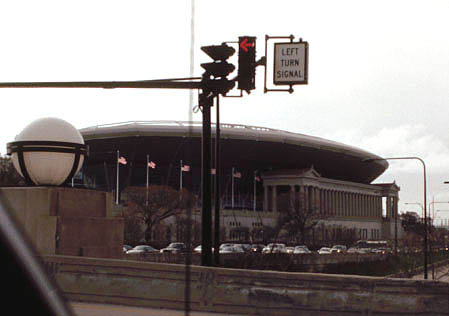 National Parks Service picture of Soldier Field in 2003. This is a National Historic Landmarks Program photograph by taken by the Midwest Regional Office.